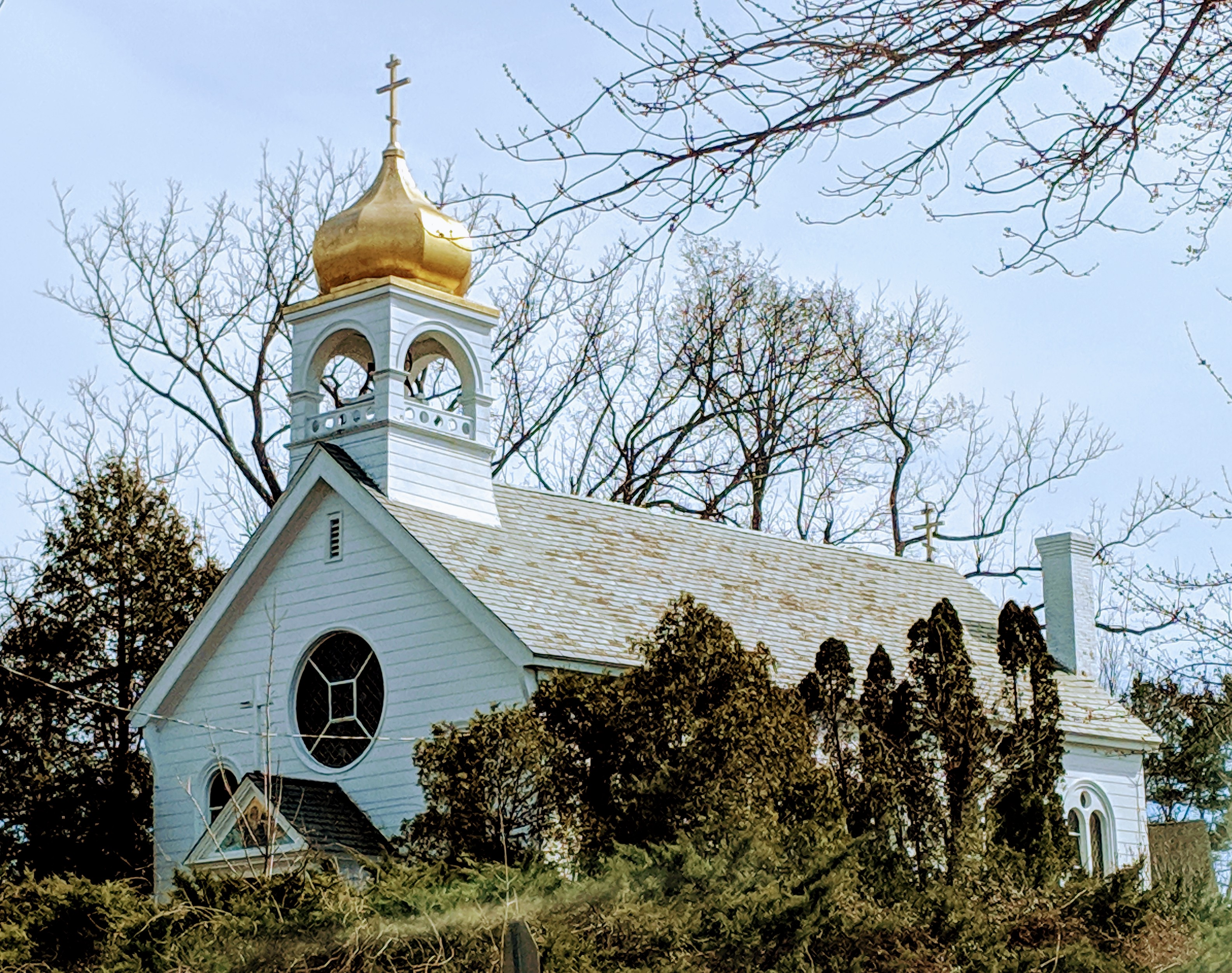 The Greek Orthodox Monastery of the Holy Cross, headquarters of the Jerusalem Patriarchate in America, is located in Setauket on Main st.